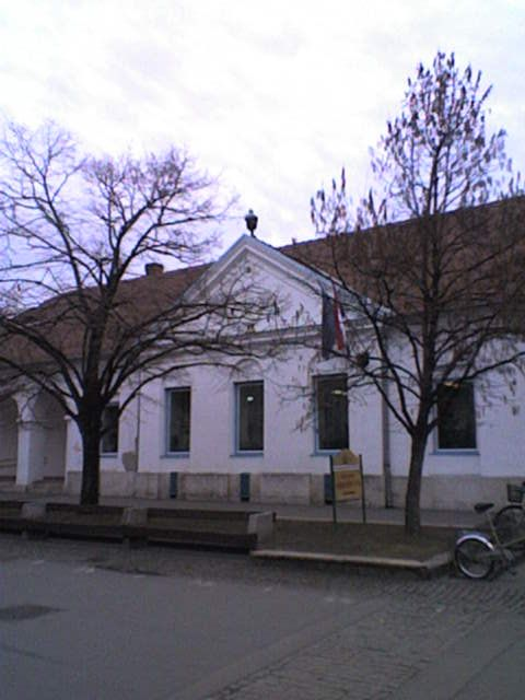 Kiskunfélegyháza, Hattyú-ház, Hungarian neoclassicism, Sándor Petőfi's father's ex-butchers This is a photo of a monument in Hungary, Identifier: 2293